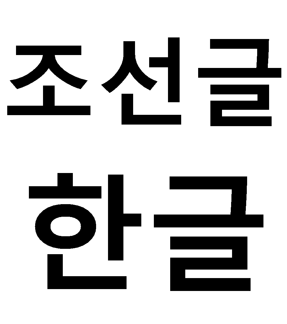 The words "Chosŏn'gŭl" (top), and "Hangul" (bottom), written in Korean alphabetical text.